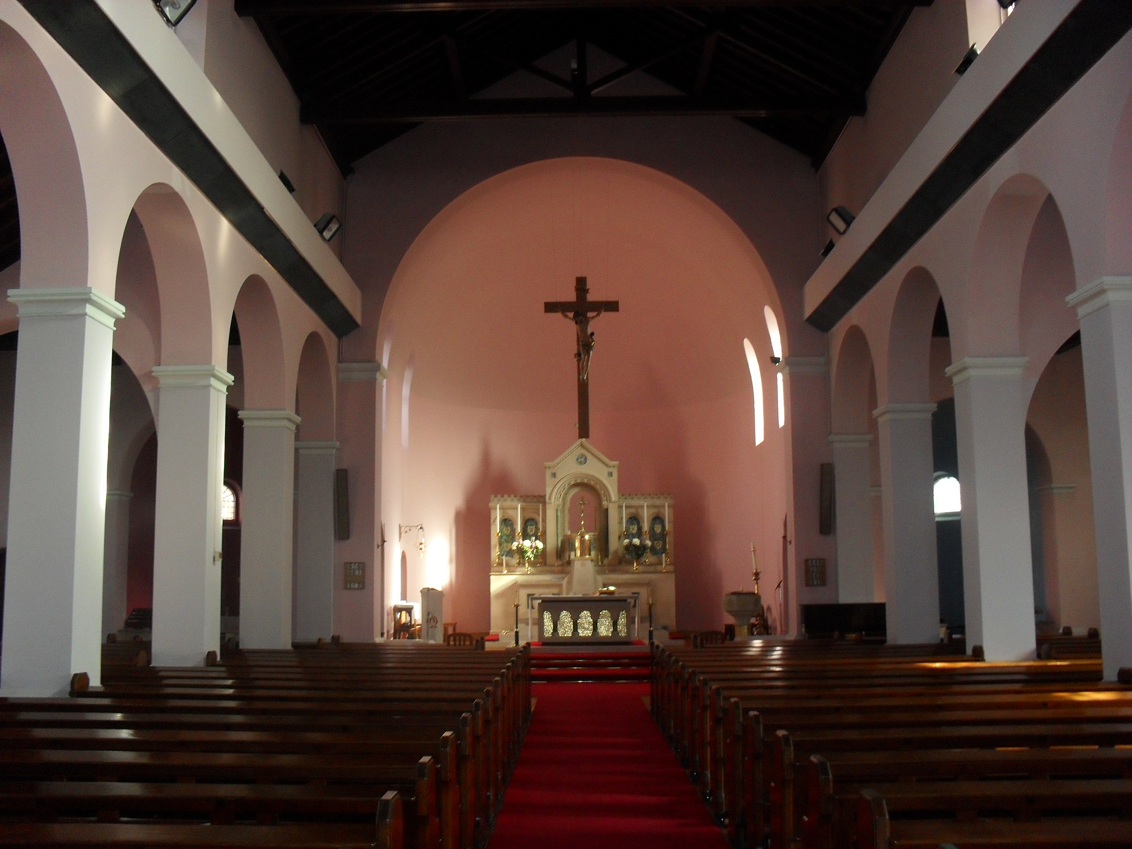 Image of St Patrick's R C Church, Cardiff